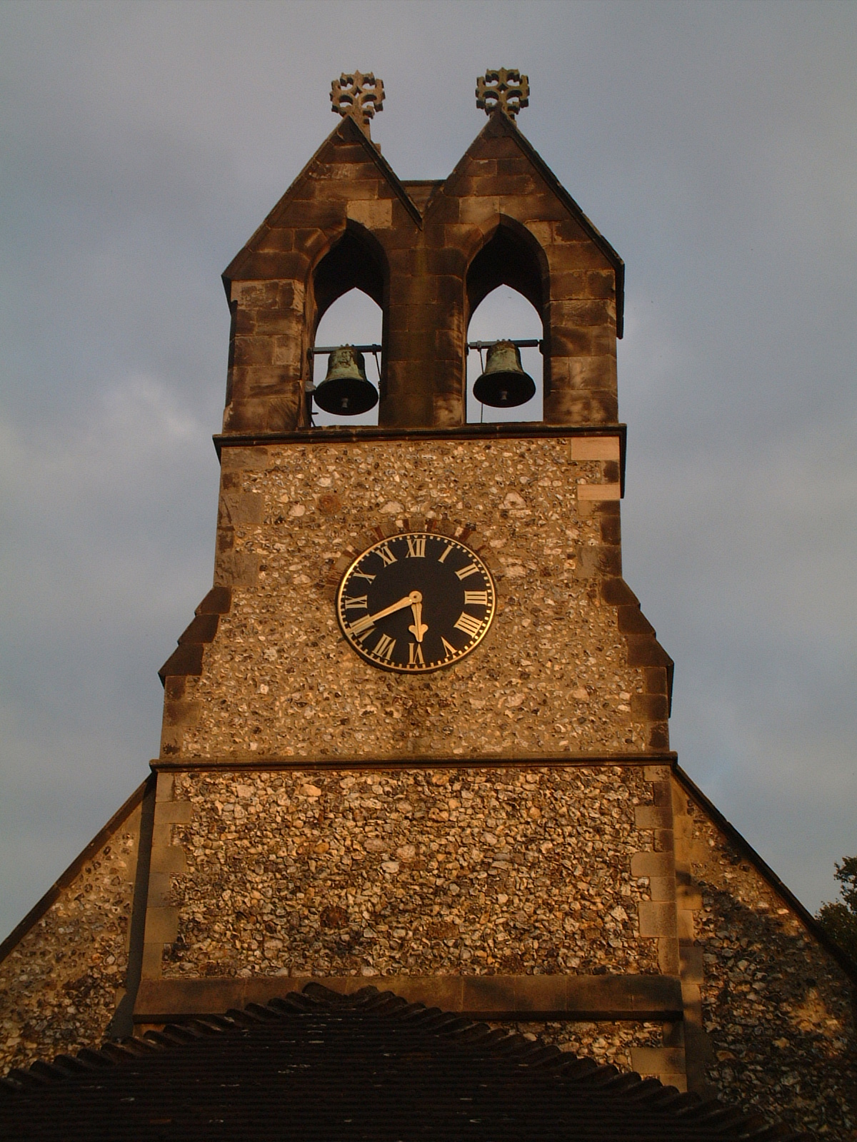 Bell gable and clock dial of Holy Trinity parish church, Leverstock Green, Hertfordshire, seen from the west